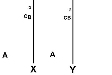 Illustration of the limits of parallax. The line represents the Z axis, so imagine that it is laying flat and stretching into the distance. If the camera is at X point A on an object at 30 feet. Point B is on an object at 200 feet and point C is on the same object but 1 inch behind B. Point D is on an object 250 feet away. with a normal baseline point A is clearly in the foreground, with B,C, and D all at stereo infinity. With a one foot base line, which multiplies the parallax, there will be enough parallax to separate all four points, though the depth in the object containing B and C will still be subtle. If this object is the main subject, we may consider a baseline of 6'8 but then the object at A would need to be cropped out. Now imagine that the camera is point Y, now the object at A is at 10,000 feet, the point B is on an object at 10,170 feet C is a point on the same object 1 inch behind B. Point D is an object at 10,220 feet. With a normal baseline, all four points are now at stereo infinity. With a 333 foot basline, the multiplied parallax allows us to see that all three objects are on different planes, yet points B and C, on the same object, appear to be on the same plane and all three objects appear flat. This is because there are discrete units of parallax, so at 10,230 feet the parallax between B and C is zero and zero multiplied by any number is still zero.